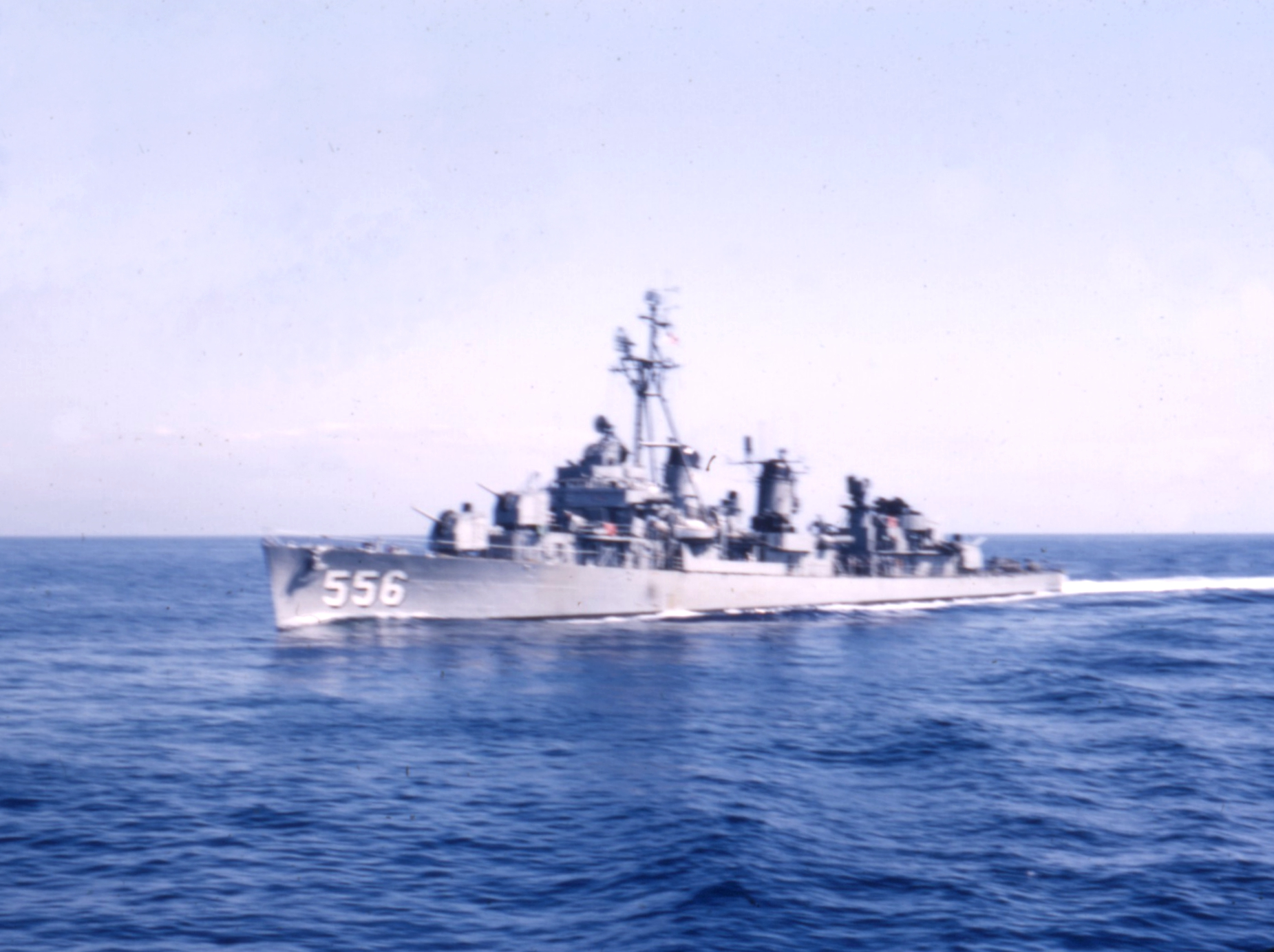 The U.S. Navy destroyer USS Hailey (DD-556) underway in the Mediterranean Sea, in 1957.